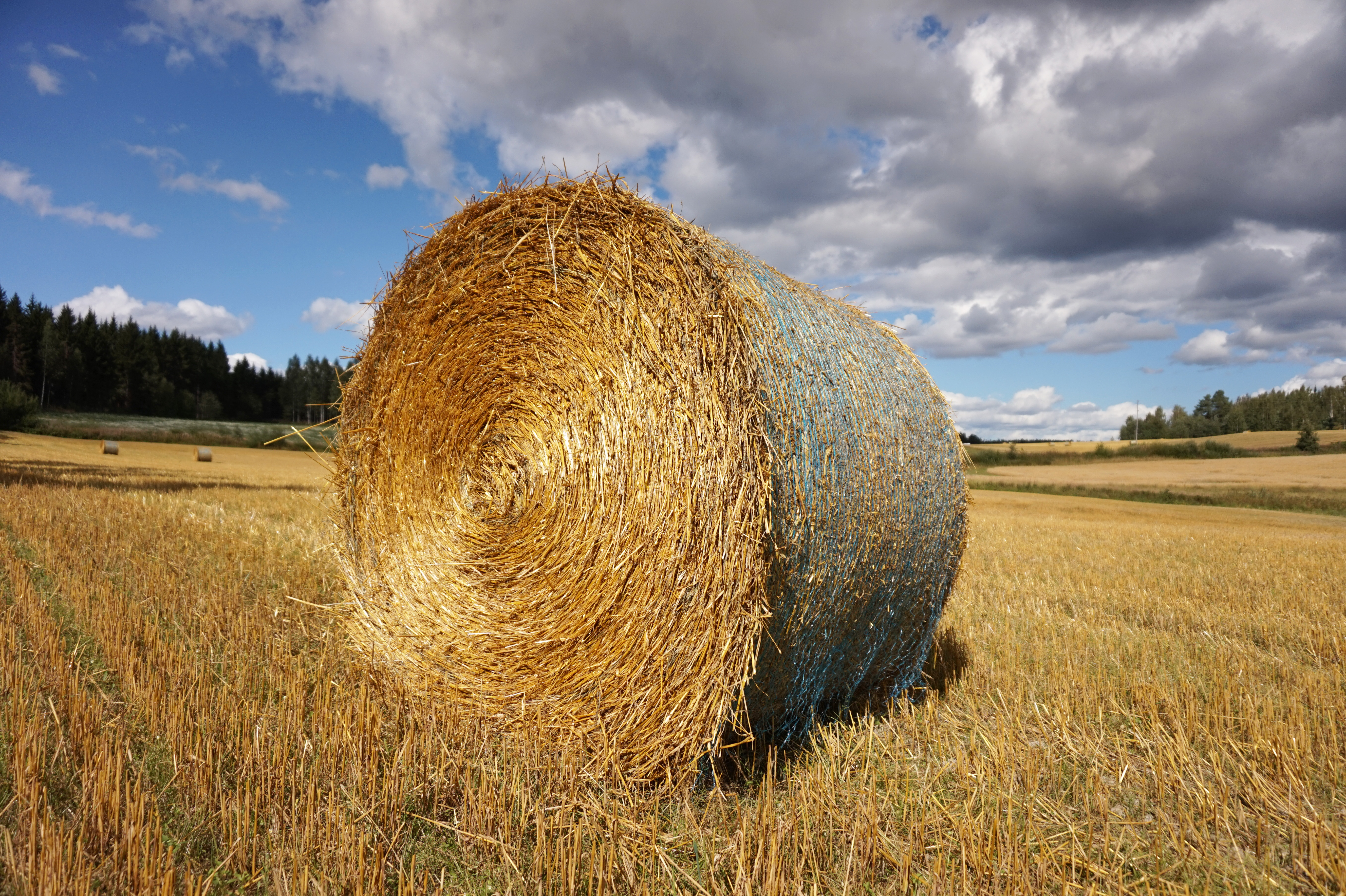 A hay bale.